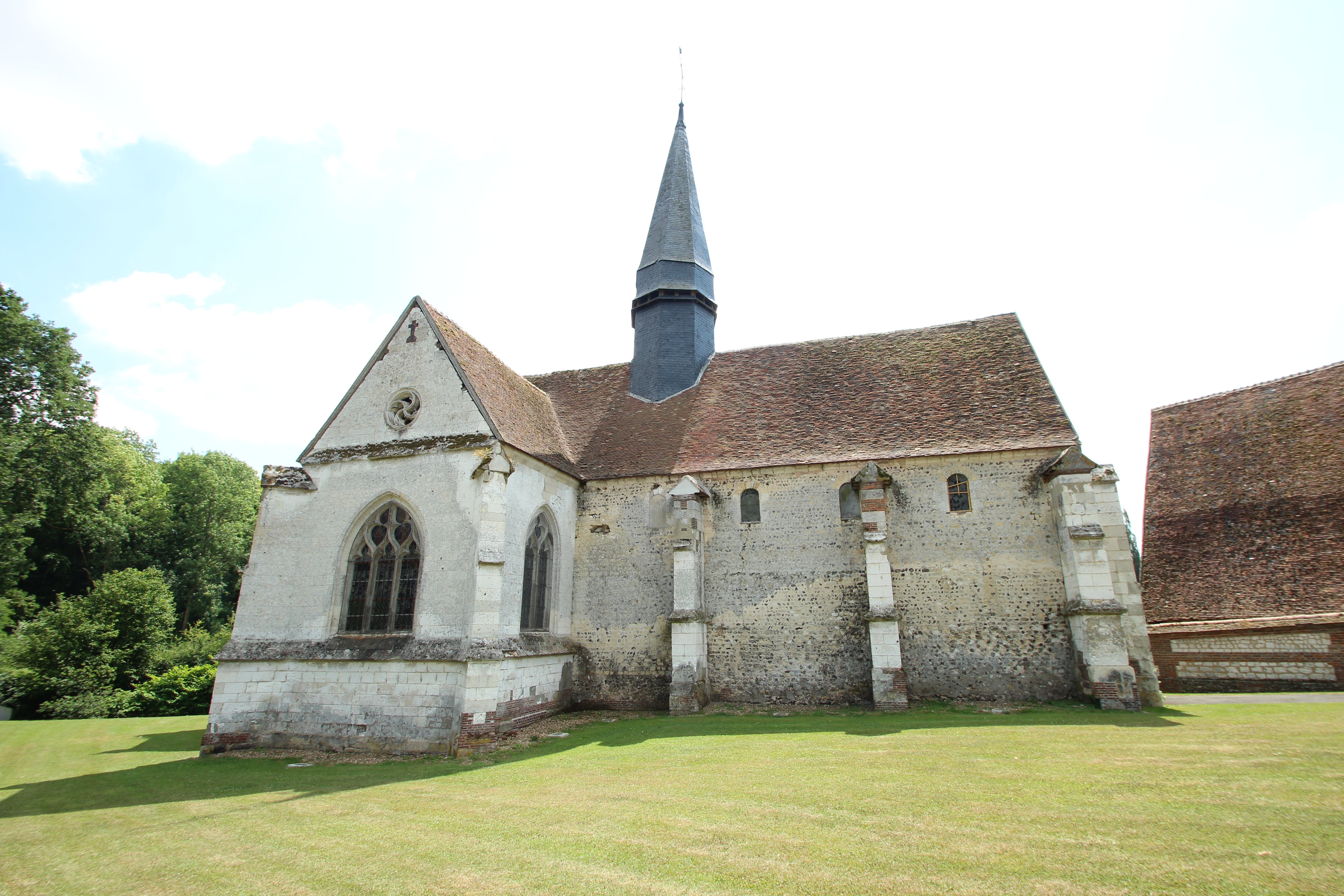 Saint-Aubin church of Guignecourt, France. Object location49° 28′ 56.98″ N, 2° 07′ 48.45″ E .